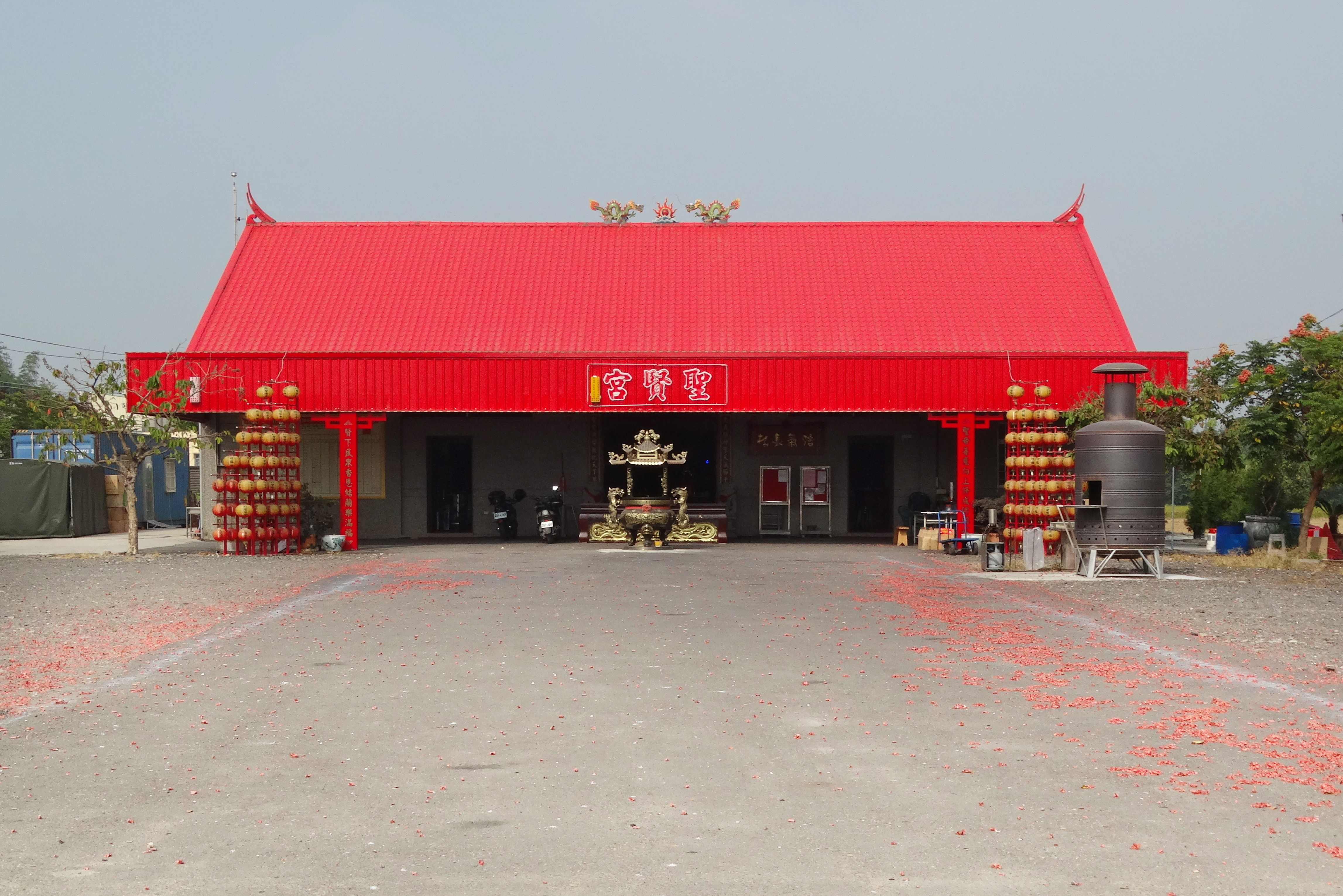 Dalin Sheng Hsien Temple, Dalin, Chiayi, Taiwan.